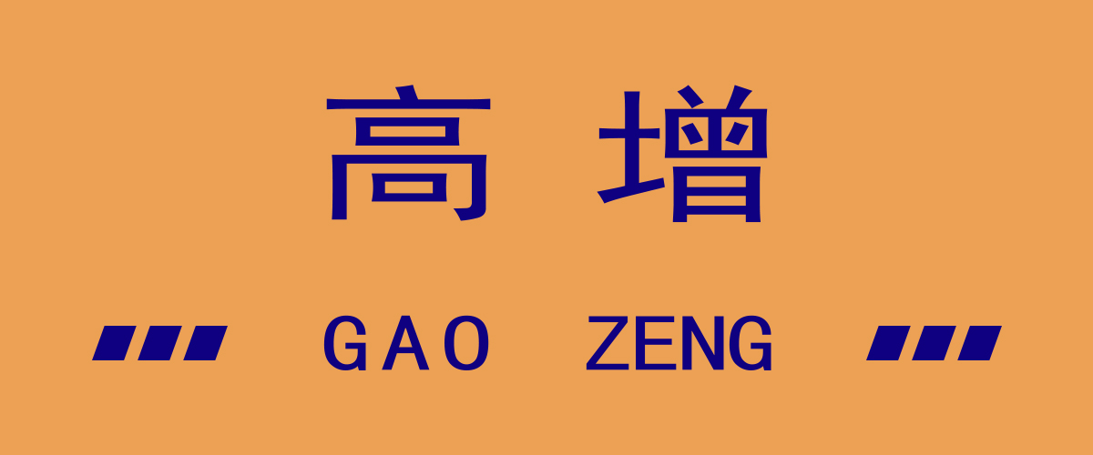 The simulation draw of the top of screen door of Gaozeng Station in Guangzhou Metro for Line 3 since Oct., 2017. Drew based on related data and reality.